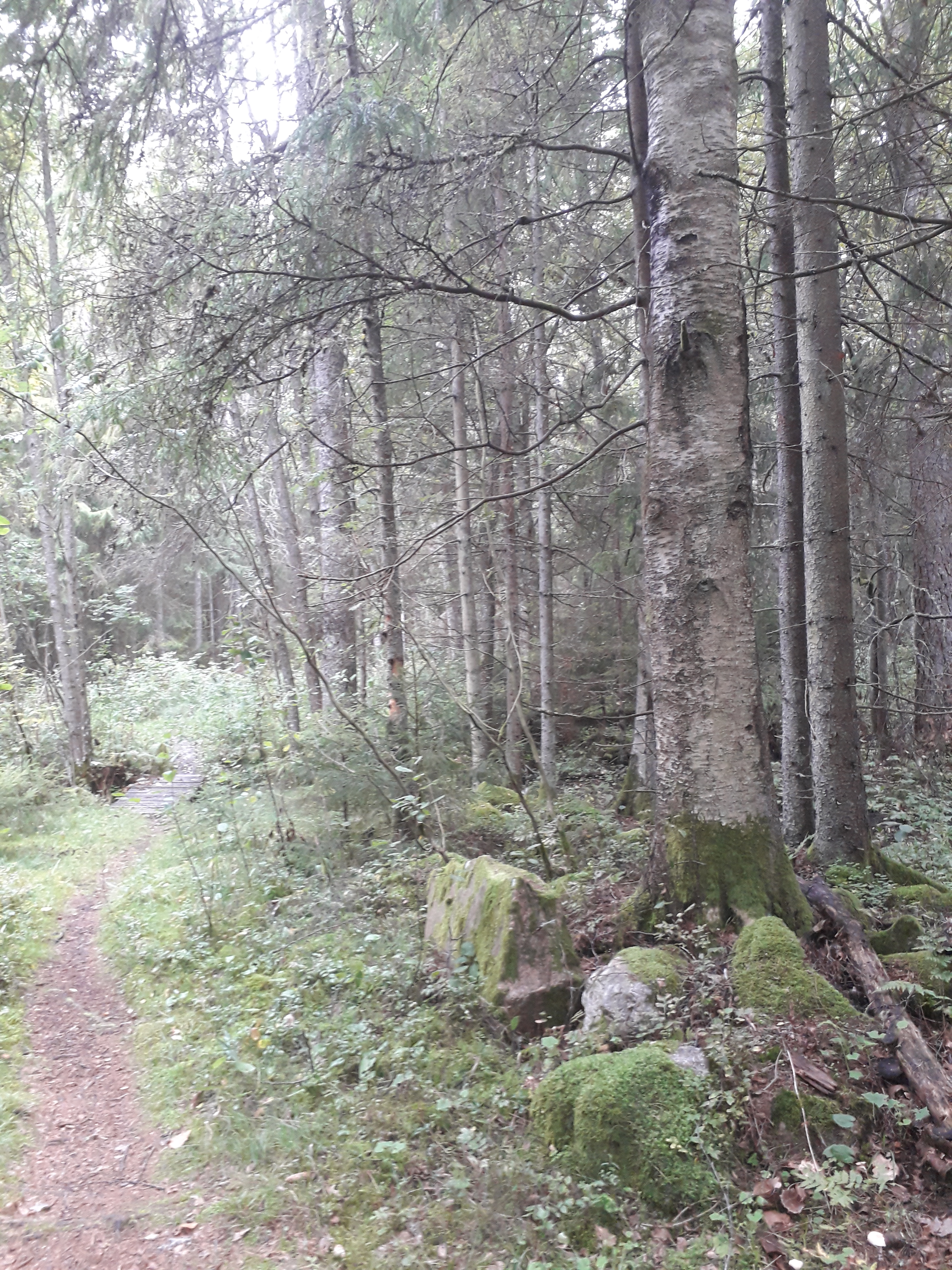 Lundbyskogen